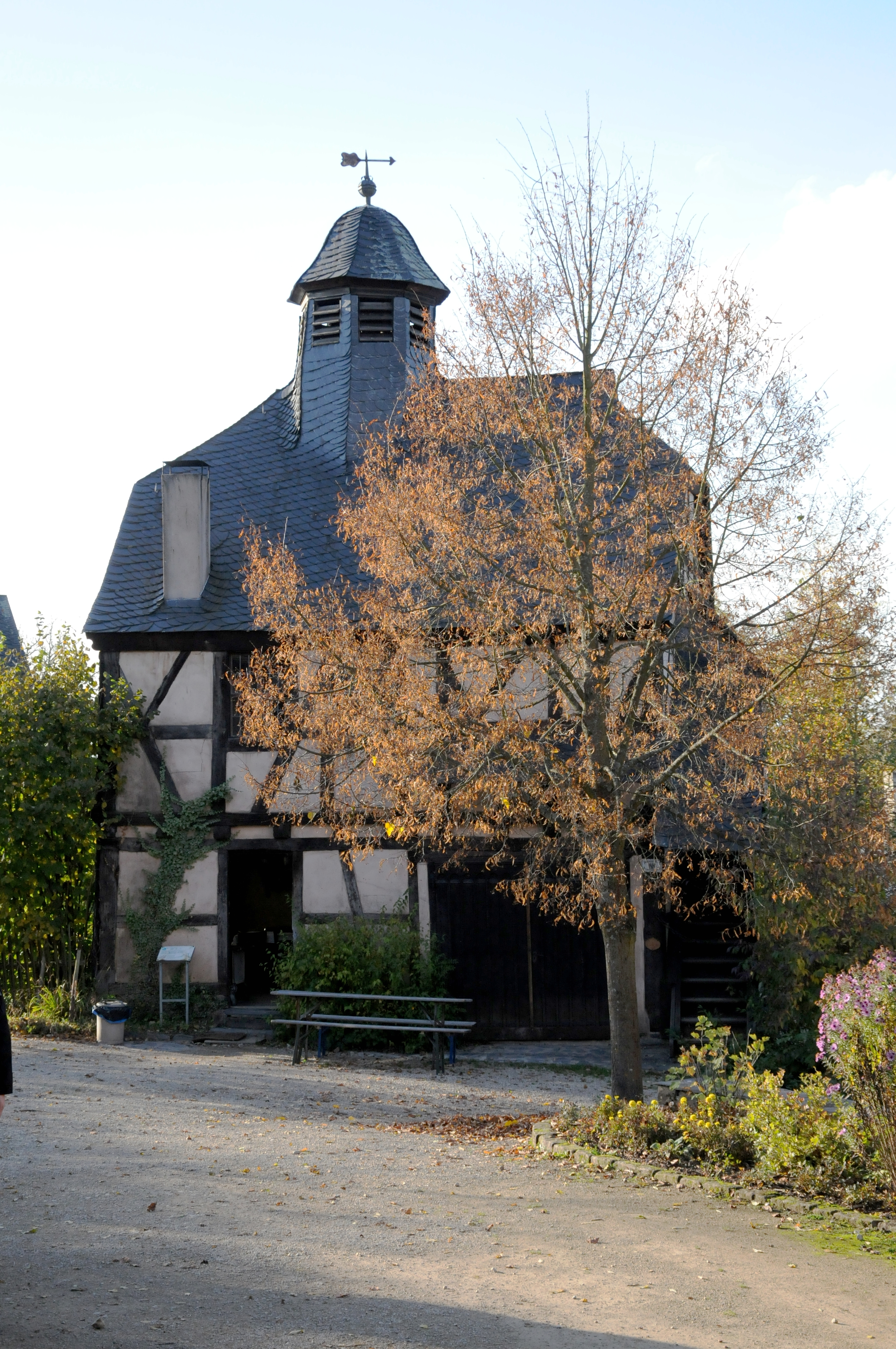 Town hall from Goedenroth - Hunsrueck village in the open air museum Roscheider Hof, Konz Germany Das Rathaus von Gödenroth im Hunsrückweiler im Freilichtmuseum Roscheider Hof Konz Deutschland